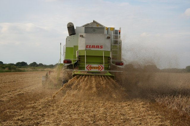 Dust cloud behind a Claas Medion combine in Black House Field at Harby, Nottinghamshire, Great Britain.